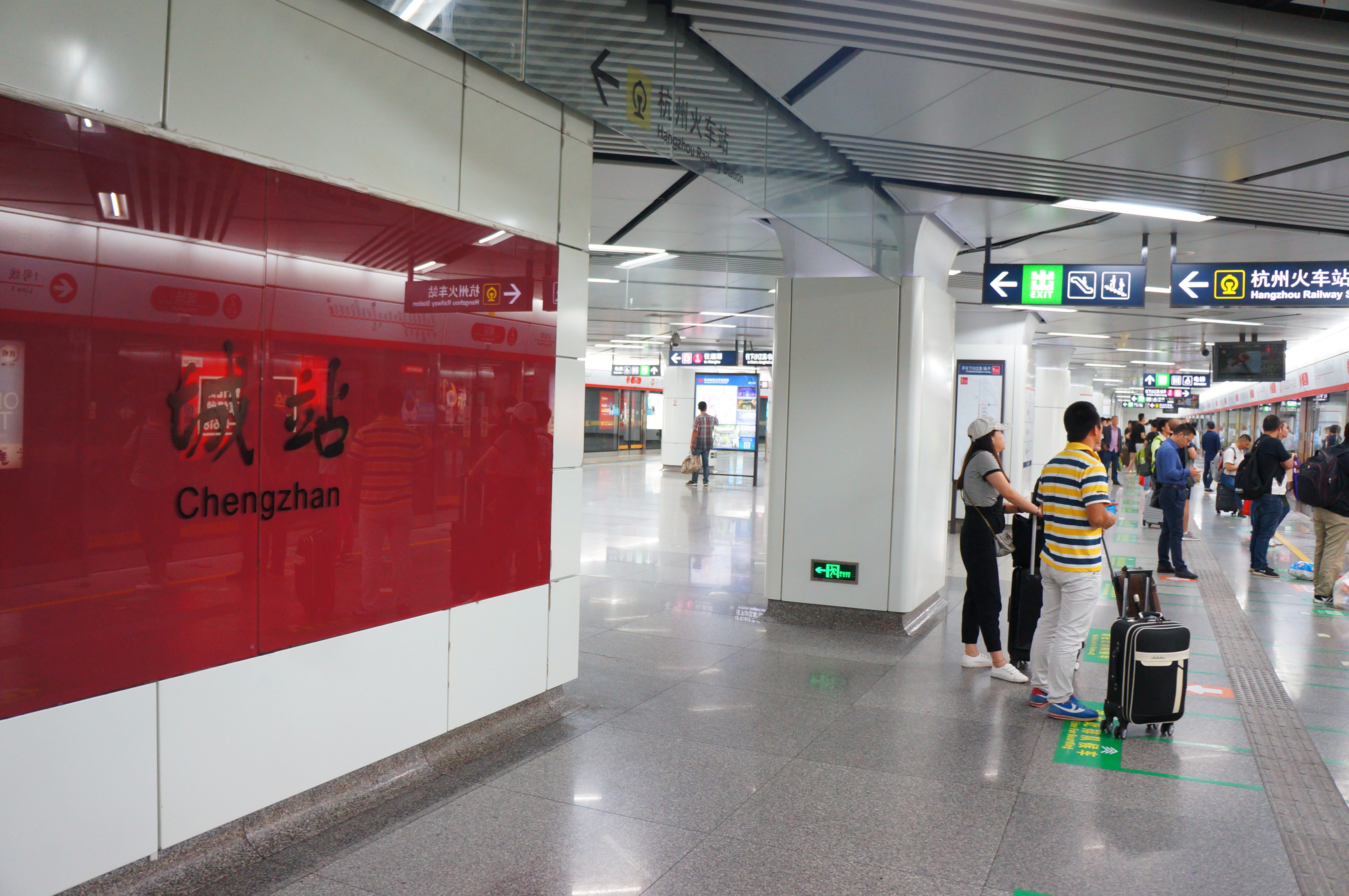 201706 Nameboard of Chengzhan Station. Haven't heard the voice of Dr. Cheri Chan for nearly 8 months.